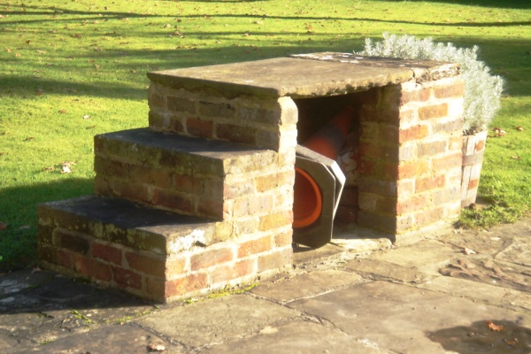 Mounting block outside the Friends Meeting House, Langley Lane, Ifield, Crawley, West Sussex, England. An 18th-century brick structure to assist horse riders mounting and dismounting. Listed at Grade II by English Heritage (ref #363372)